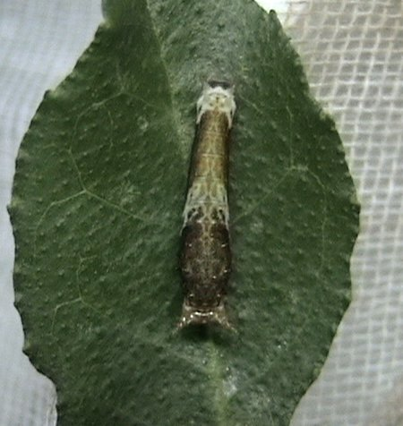 Common Mormon, mimic of bird dropping during early instars. Taken by self in my garden.